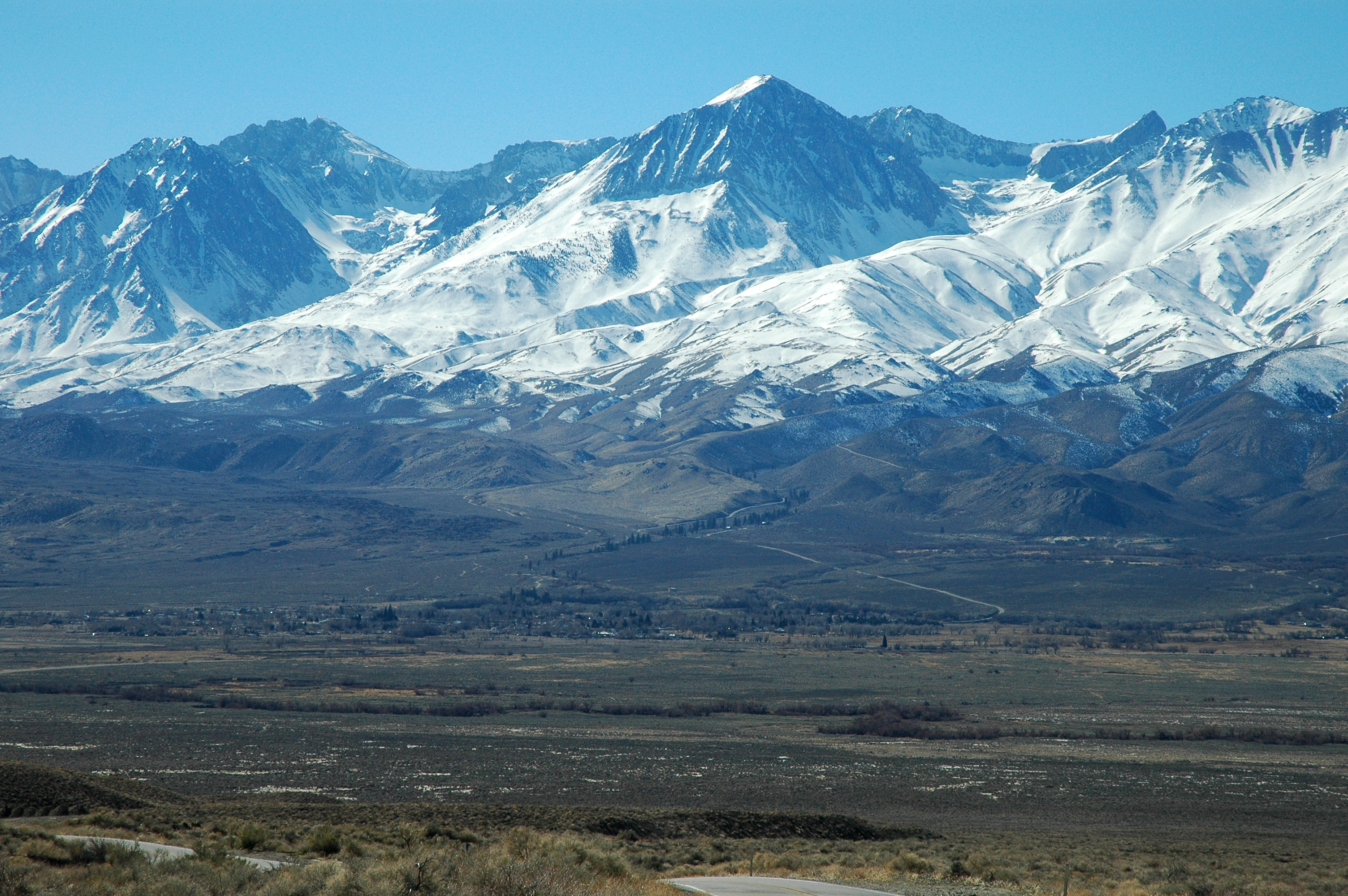 The entire town of Big Pine, California, is in the middle of the photo, in the Owens Valley with the Eastern Sierra as backdrop. View is shot from the lower slope of the White Mountains (California).